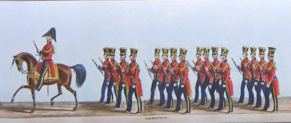 Knight Marshal and Marshalmen in the Coronation Procession of Queen Victoria 28th June 1838 (from a contemporary panoramic print).